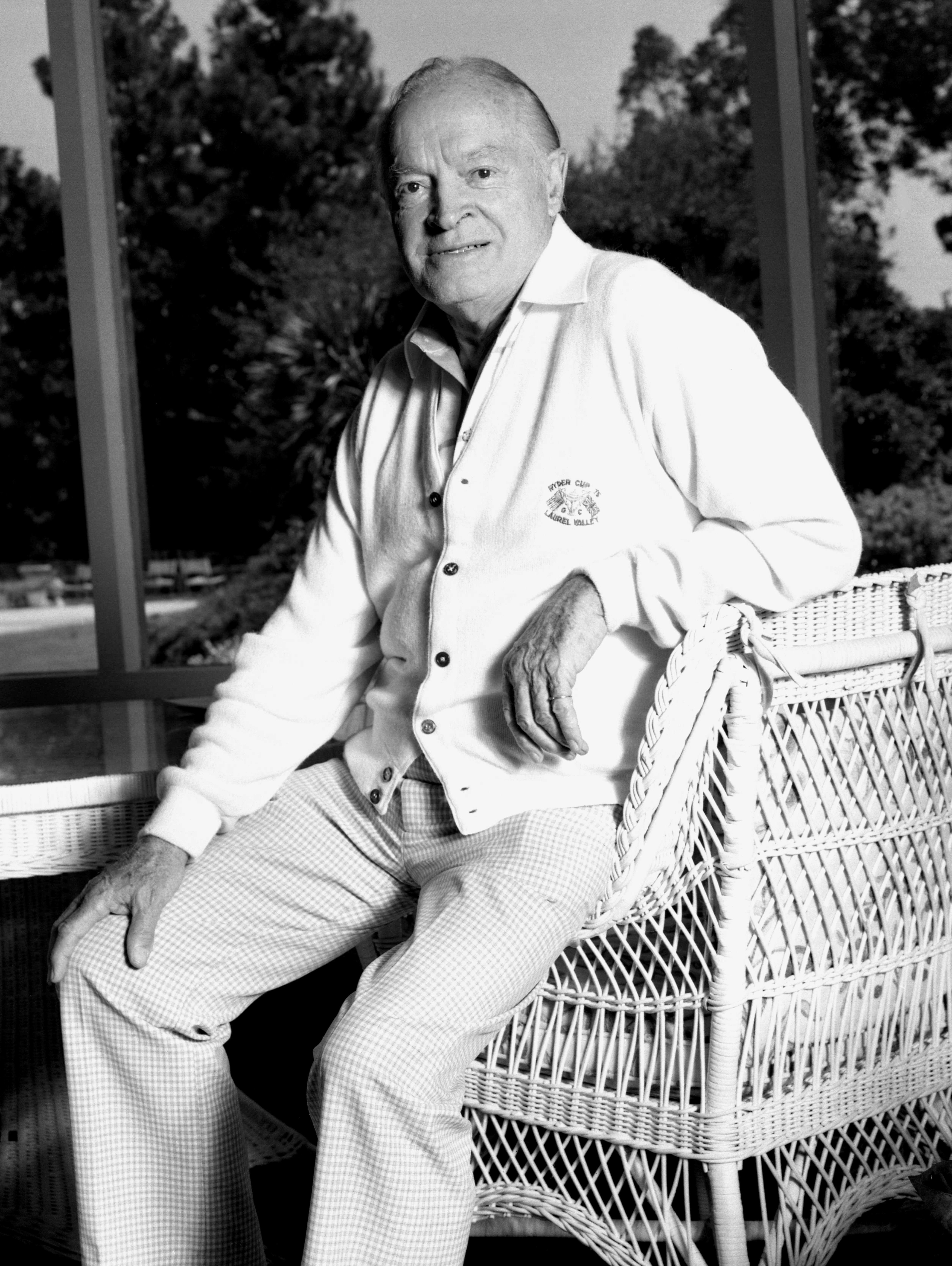 Bob Hope at home in California (correct orientation).